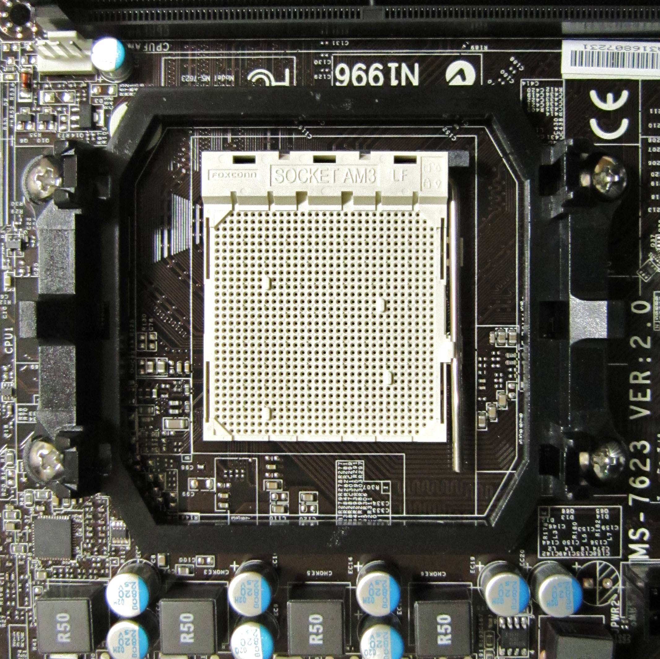 MSI 785GM-P45 Socket AM3.